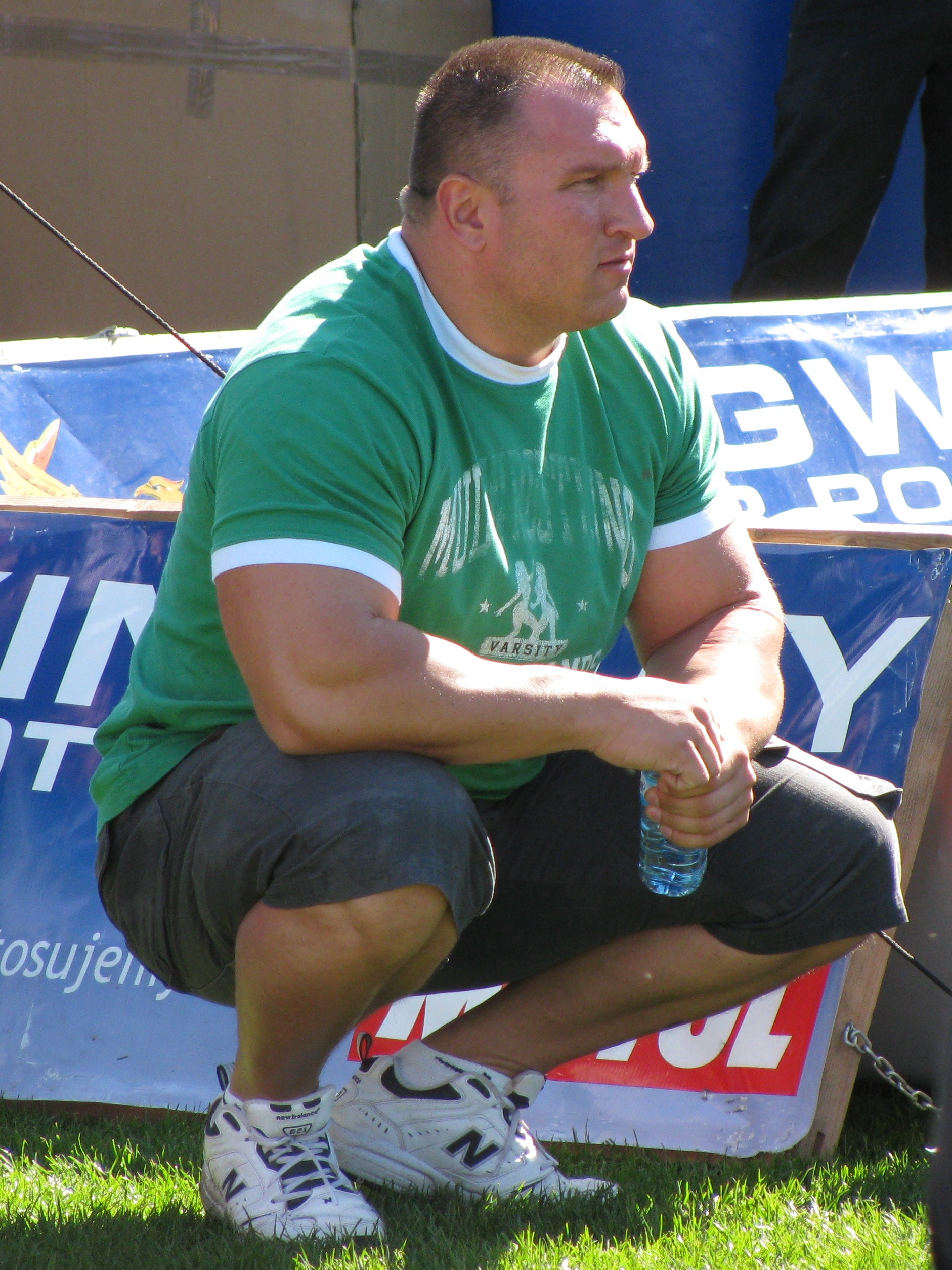 Jaroslaw Dymek - a strength athlete from Poland